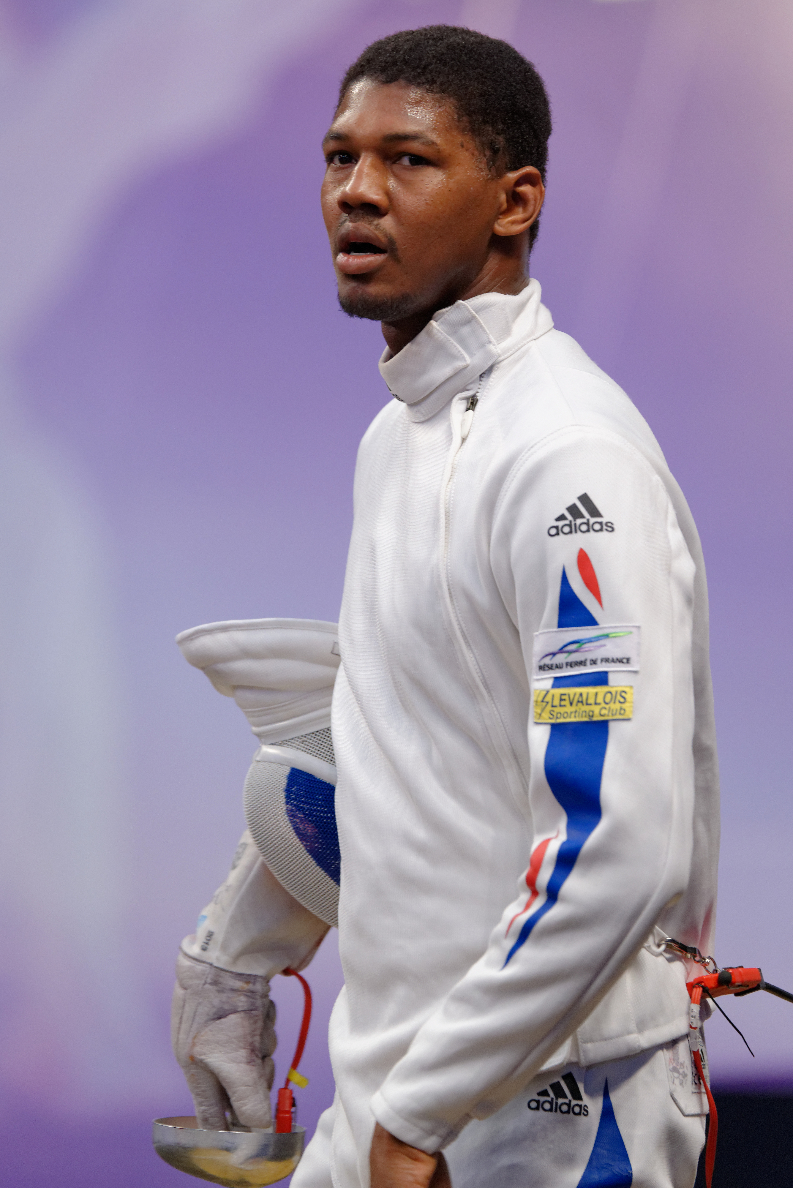 Ulrich Robeiri of France during his T64 match against Hungary's Géza Imre at the 2014 Challenge RFF-Trophée Monal, a men's épée World Cup event, on 3 May 2014.